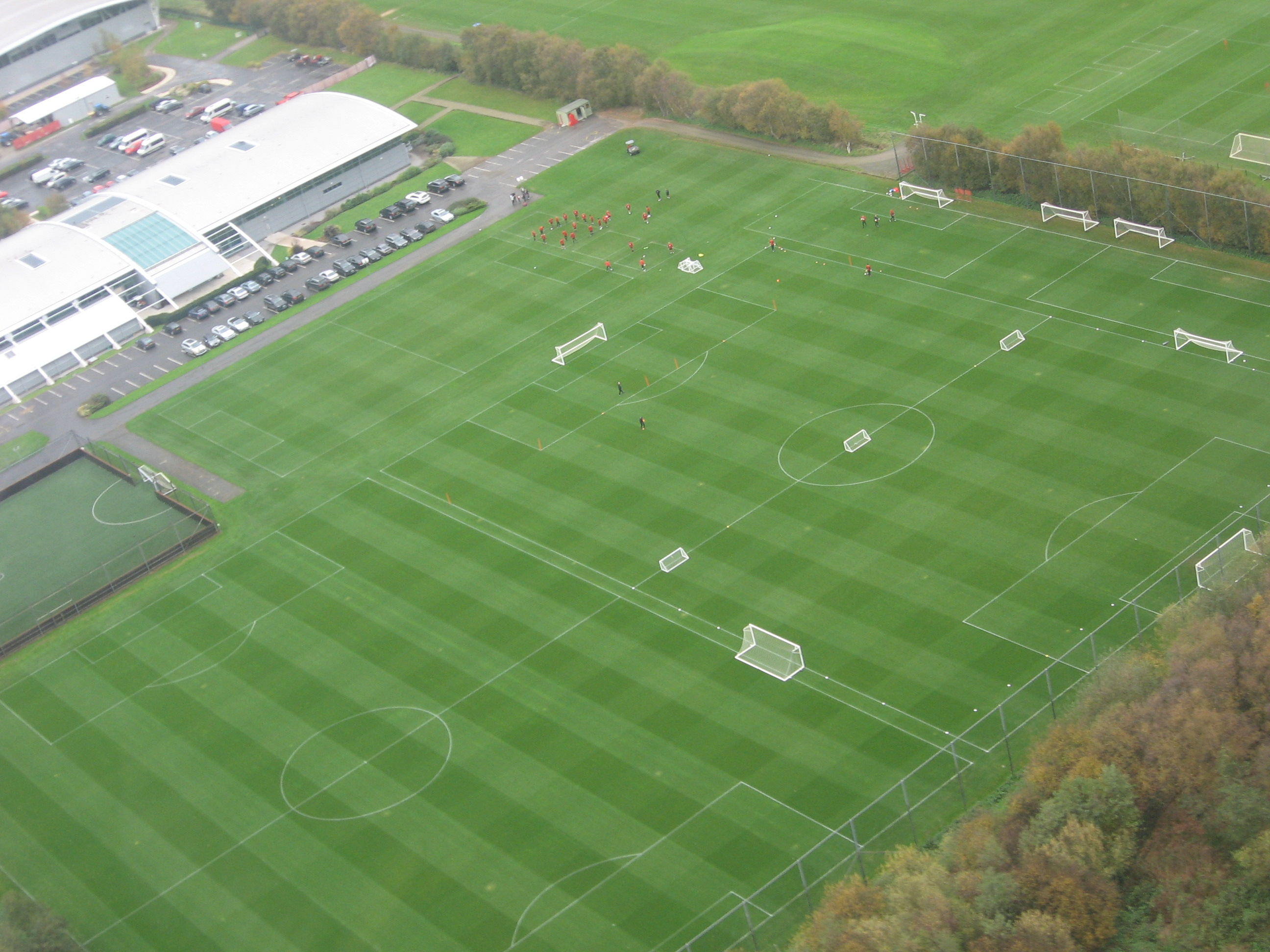 This is an unusual shot of the Manchester United Carrington training ground from the North West Air Ambulance on approach to meet Sir Alex Ferguson. In the picture you can see the first team preparing to take on Barnsley in the Carling Cup